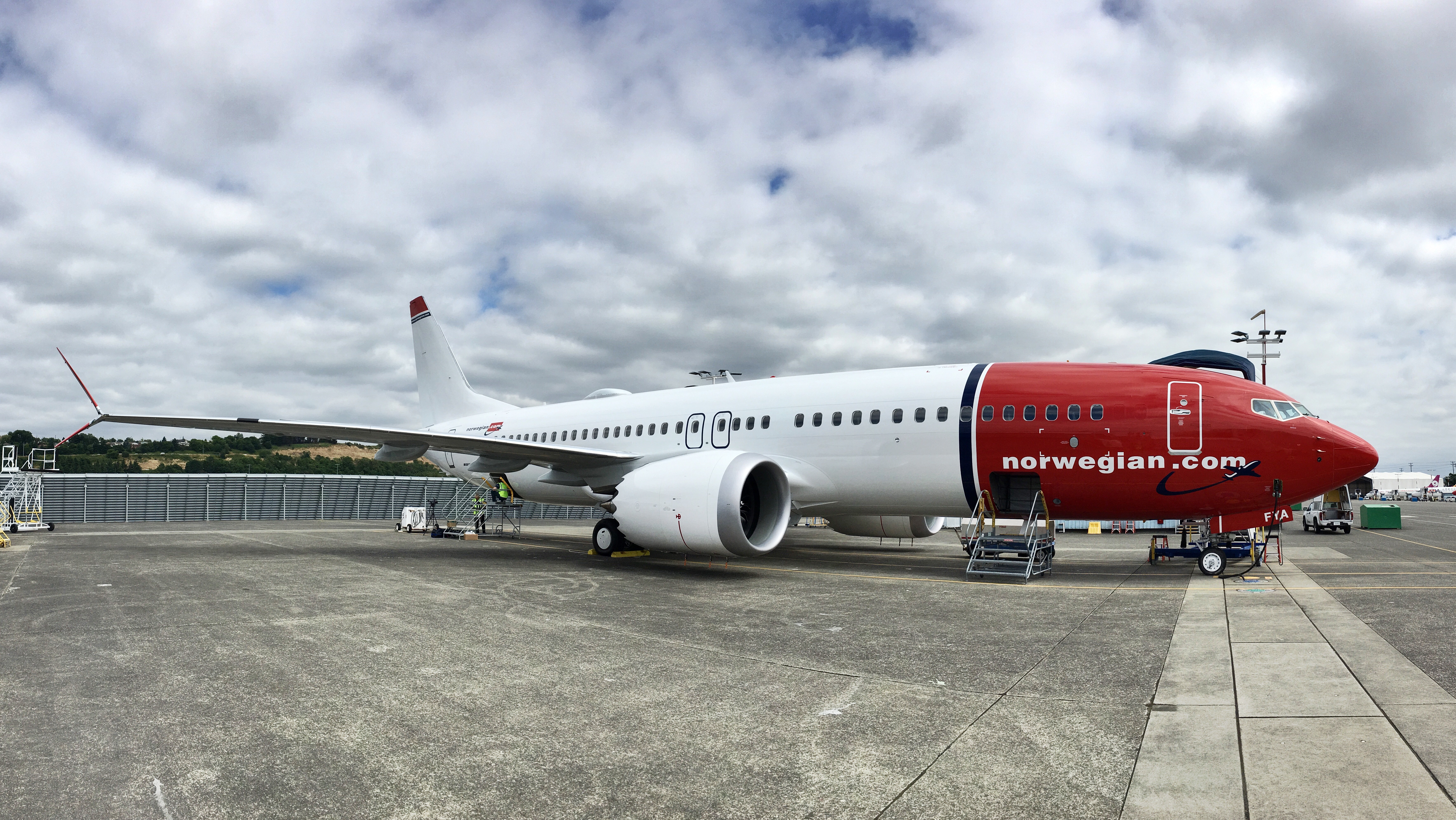 Norwegian's first 737 Max